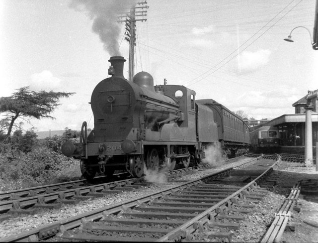 Omagh railway station, County Tyrone, Northern Ireland. GNR Class U 4-4-0 locomotive 204 Antrim departs with a passenger train as a GNR diesel railcar stands at the station.